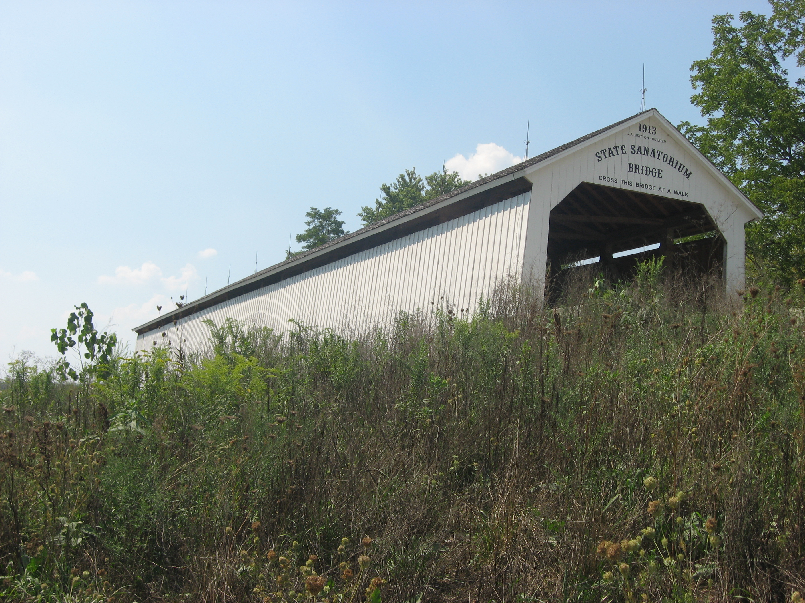 Eastern portal and southern side of the State Sanitorium Covered Bridge, which carries County Road 100N over Little Raccoon Creek east of Rockville in Adams and Washington Townships in Parke County, Indiana, United States. Built in 1913, it is listed on the National Register of Historic Places. Its name is derived from its former location at the Rockville State Sanitorium; it has been relocated to the site of the destroyed Adams Covered Bridge.